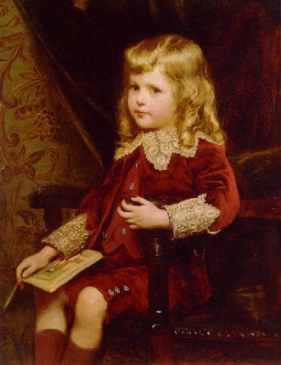 Portrait of a young boy in a red velvet suit